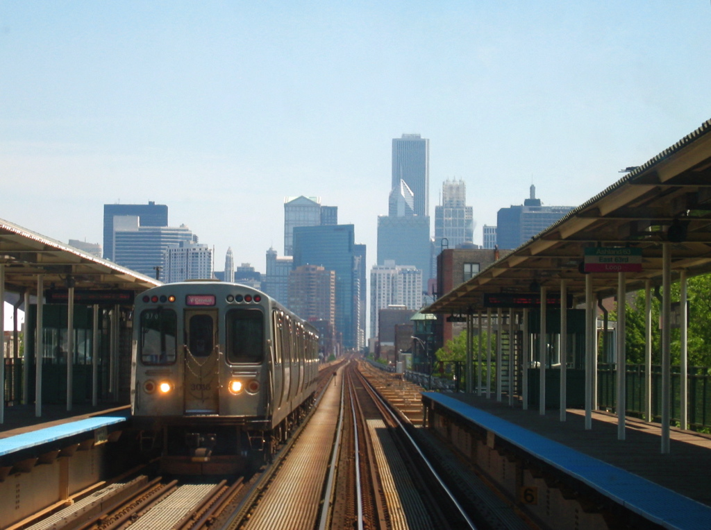 A CTA pink line train approaches Ashland station on the Lake Street elevated line.